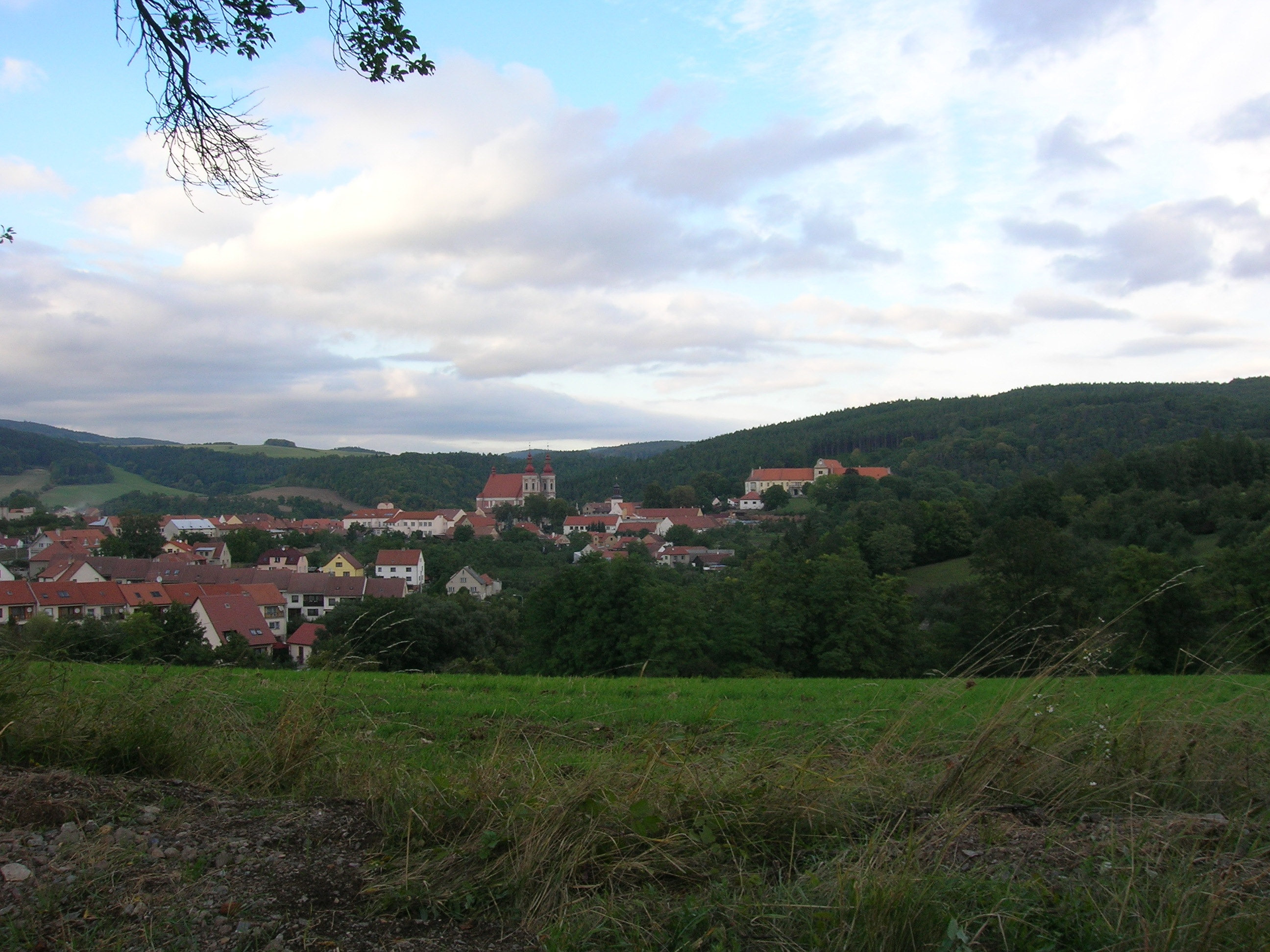 View of Lomnice (Brno-Country District)